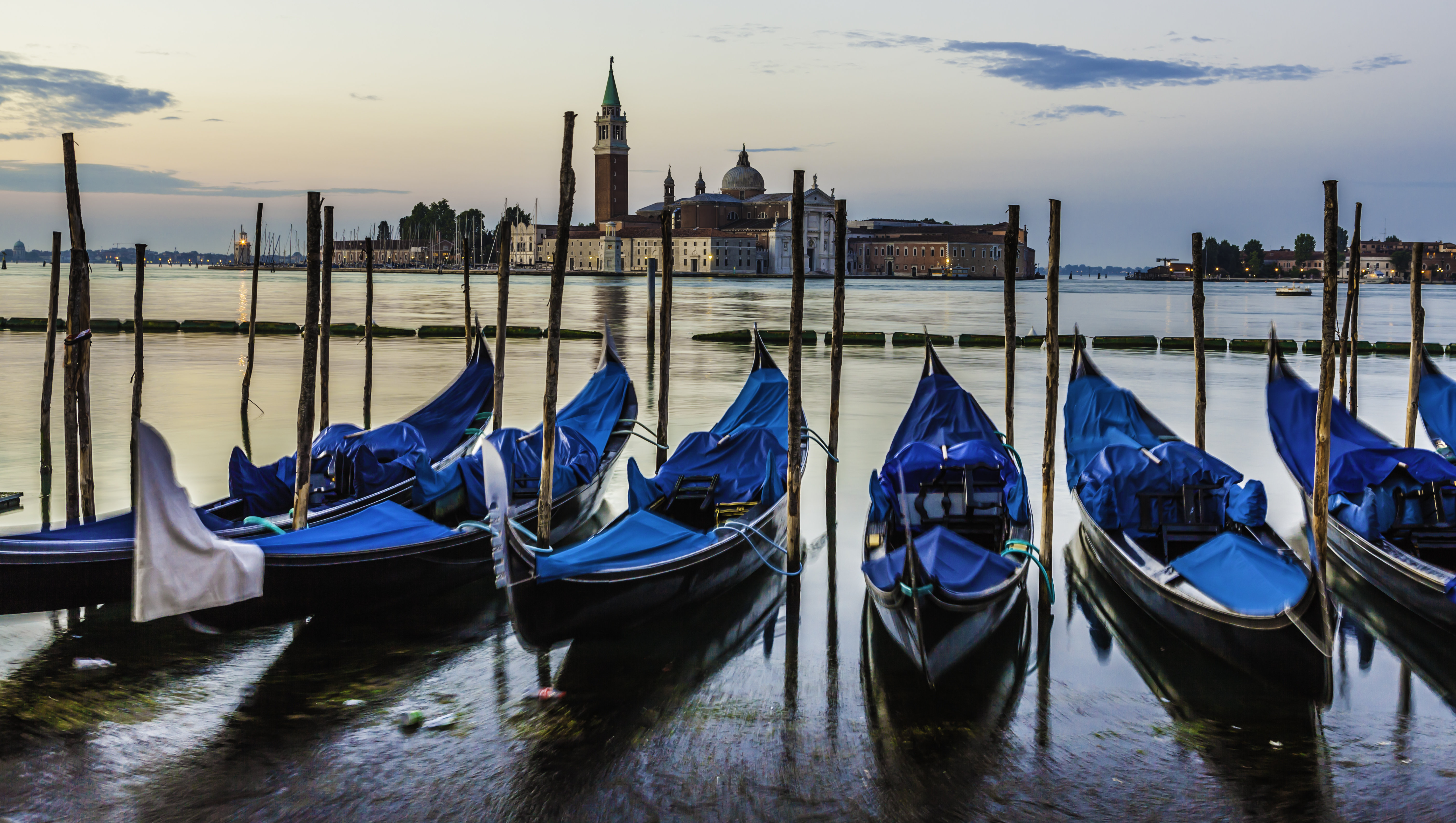 Venice is fascinating in the morning at sunrise